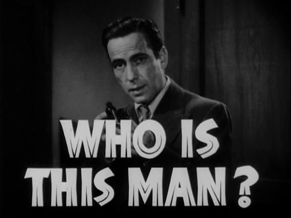 Frame from the 1941 public domain trailer for the Warner Bros. film The Maltese Falcon showing type "Who is this man?"